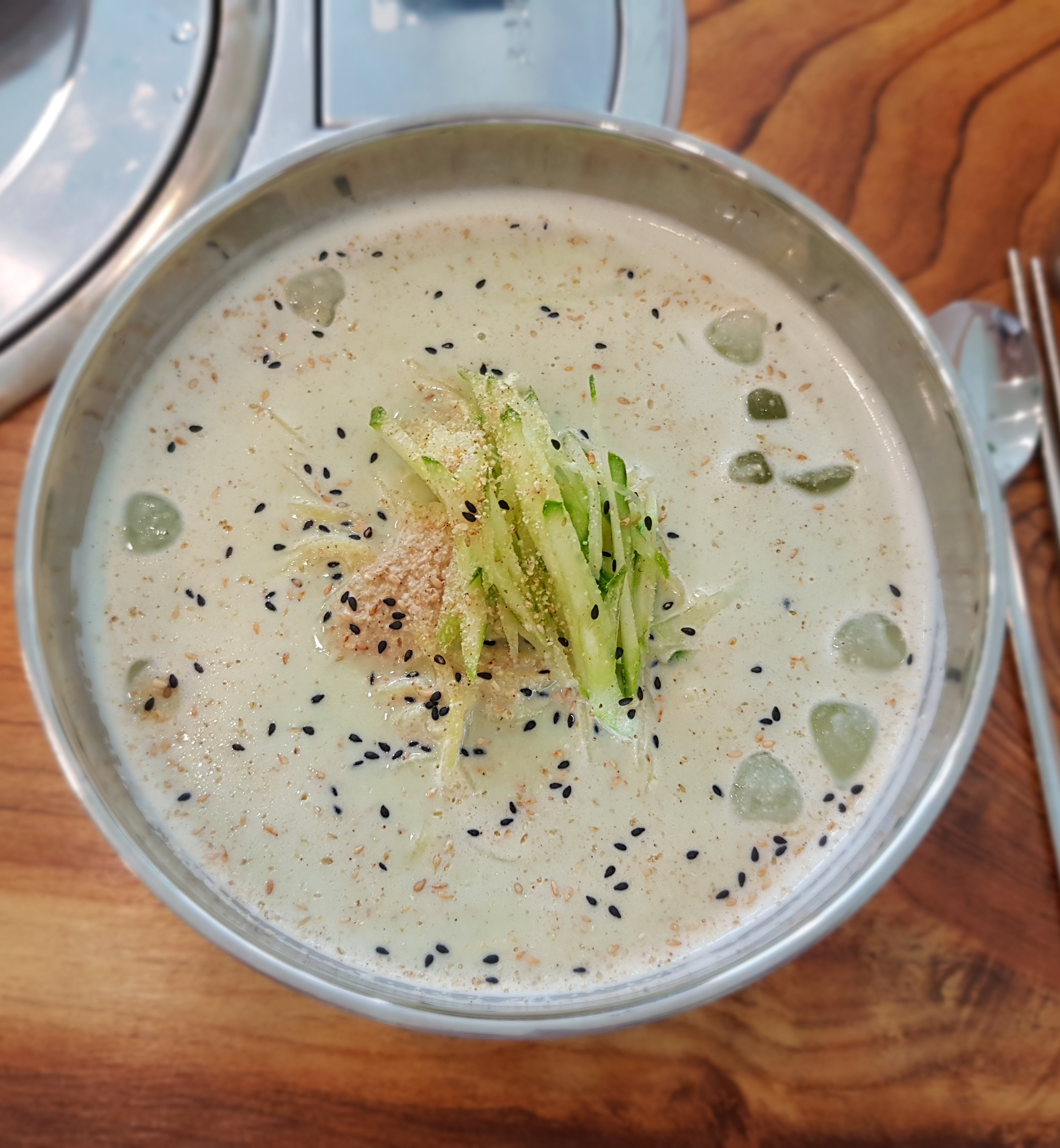 green kernel black bean Kong-guksu